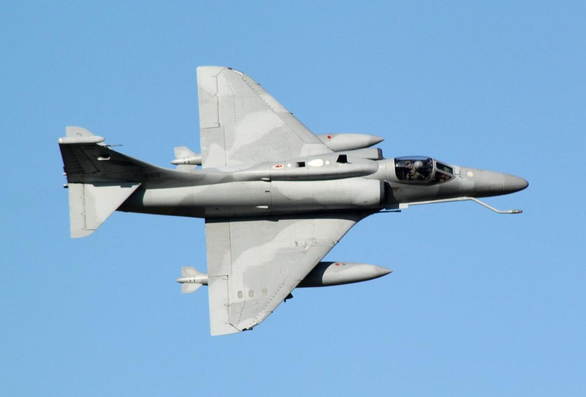 Argentine Air Force A-4AR Fightinghawk during Air Fest 2010 show at Moron Air Base, Buenos Aires Argentina